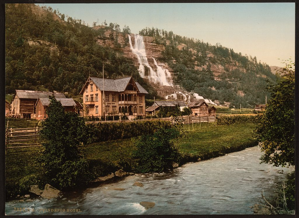 Tvindefos (i.e., Tvindefossen) hotel [Norway] [between ca. 1890 and ca. 1900]. 1 photomechanical print : photochrom, color. Notes: Print shows Tvindefossen (Tvinde Waterfall) and hotel, near Voss, Hordaland County, Norway. (Source: Flickr Commons project, 2009) Title from item. Incorrect title listed in the Detroit Publishing Co., Catalogue J foreign section. Detroit, Mich. : Detroit Publishing Company, 1905: "Tvindefos and hotel, Hardanger Fjord." Print no. 7037. Forms part of: Landscape and marine views of Norway in the Photochrom print collection. Subjects: Norway. Format: Photochrom prints--Color--1890-1900. Repository: Library of Congress, Prints and Photographs Division, Washington, D.C. 20540 USA, Part Of: Landscape and marine views of Norway (DLC) 2001699563 More information about the Photochrom Print Collection is available at Persistent URL: Call Number: LOT 13432, no. 053 [item]